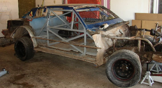 A rollcage from a 2003 Street Stock racecar that I used to work on. Car was raced at the racetrack in Chilton, Wisconsin, USA.